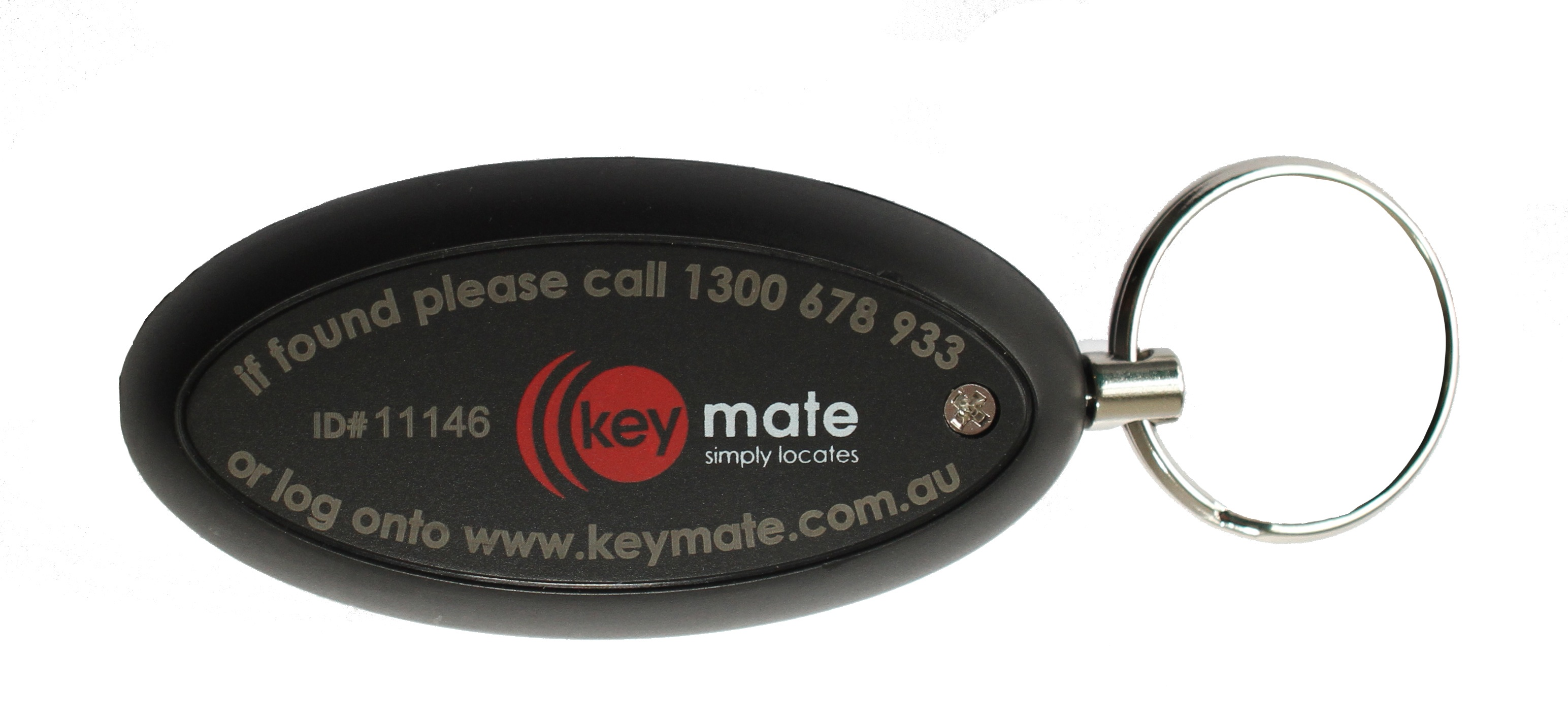 Electronic RFID Keyfinder or Key-tag. Keyfinder responds when transmitter is activated. The image shown is a Keymate Receiving unit.